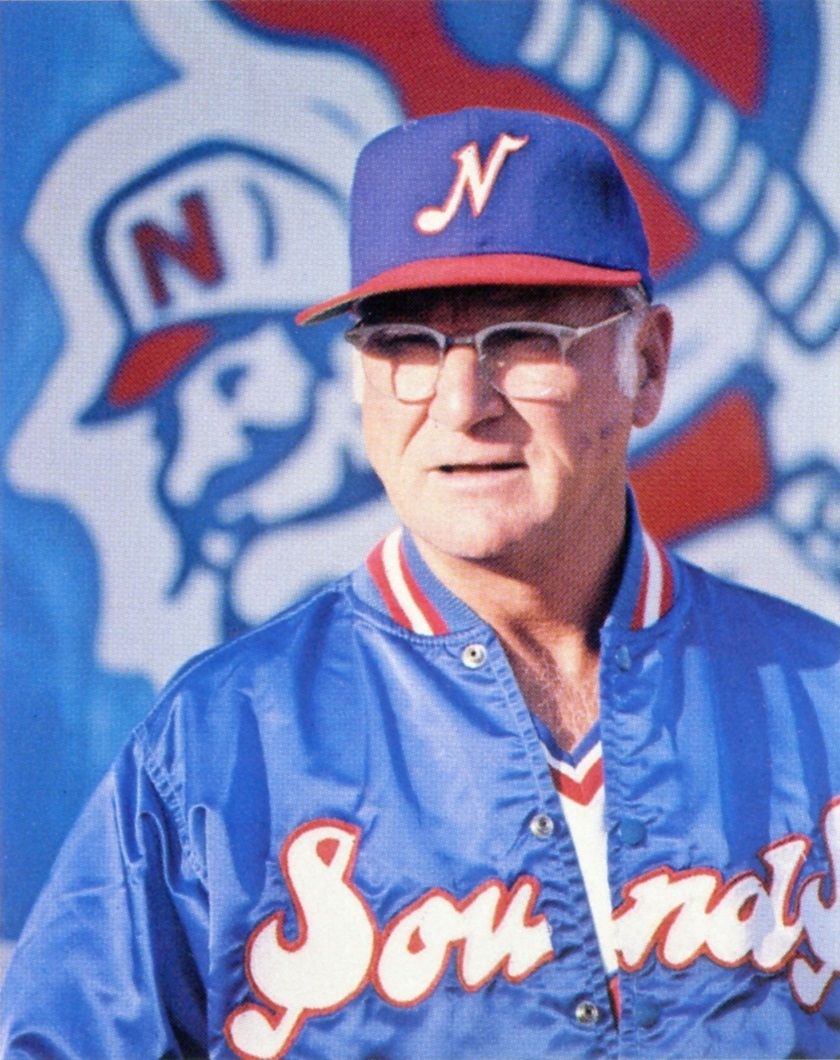 Manager George Scherger of the 1979 Nashville Sounds Minor League Baseball team of the Southern League